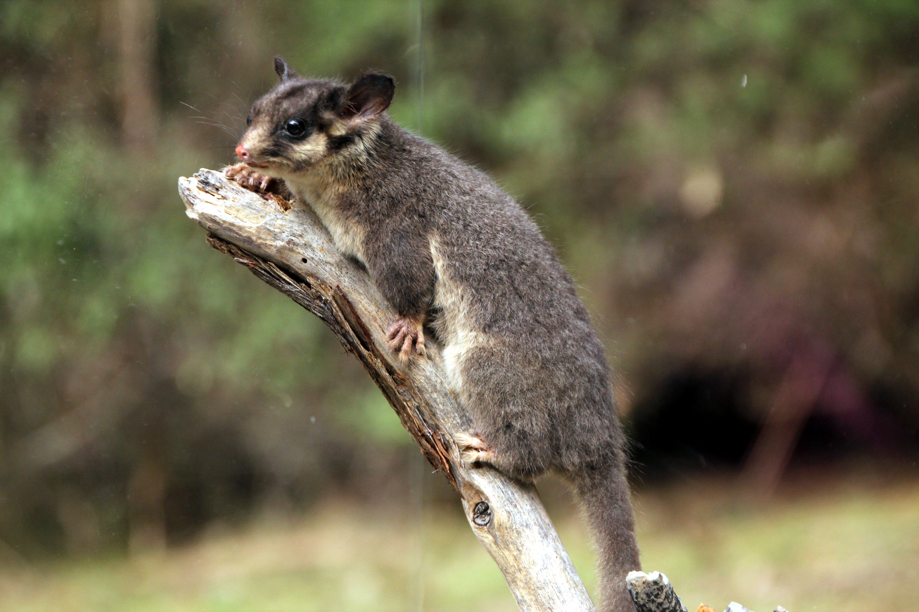 George is a taxidermied male Leadbeater's Possum (Gymnobelideus leadbeateri) that Friends of Leadbeater's Possum uses for it's educational work concerning this threatened species. George was found dead but intact on the side of a logging road about 2011 in the Victorian Central Highlands. It is assumed that George's home in the mountain ash (Eucalyptus Regnans) forests was a victim of logging, and as his home was being carted away he fell off the logging truck.